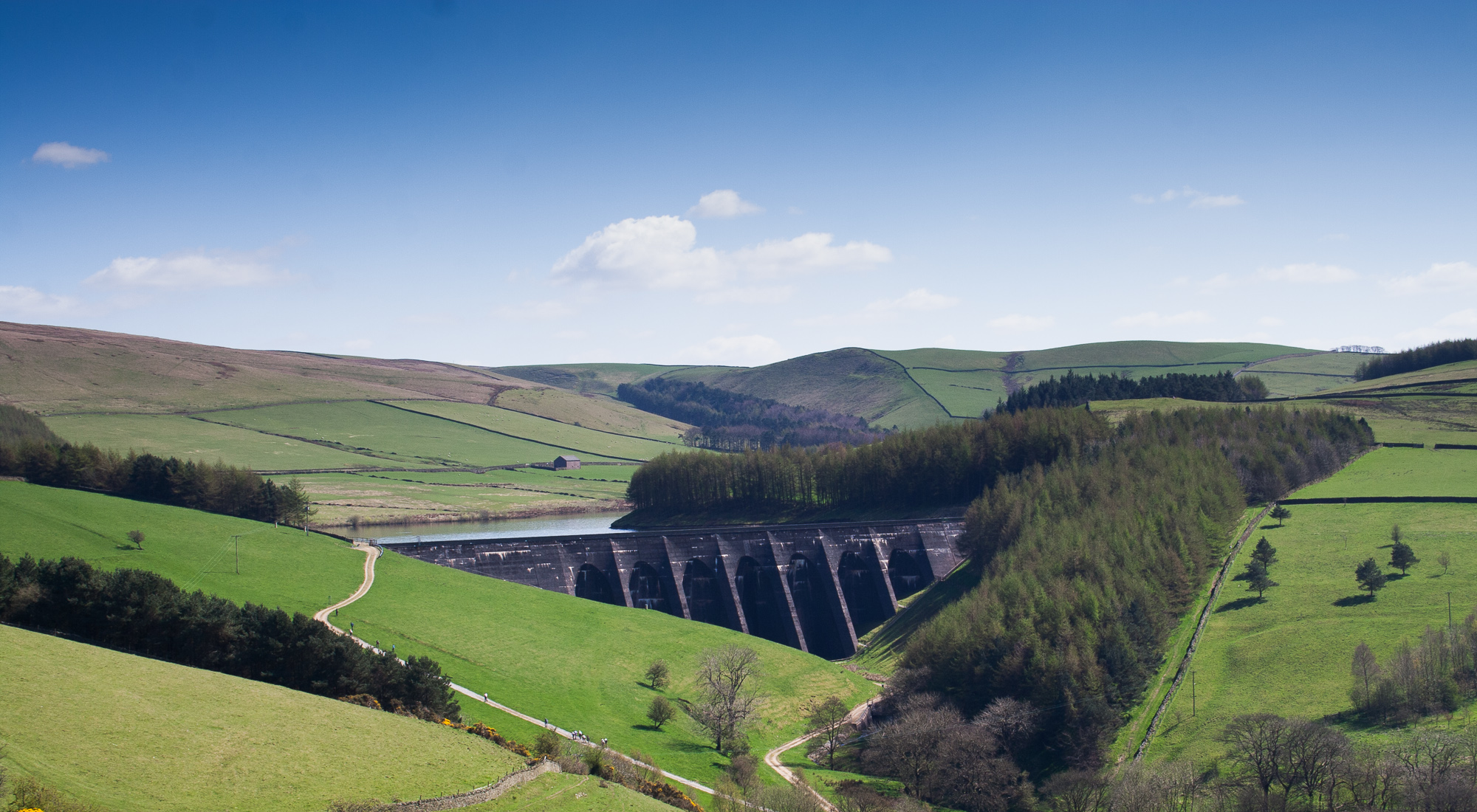 Lamaload Reservoir, near Macclesfield, Cheshire, United Kingdom.